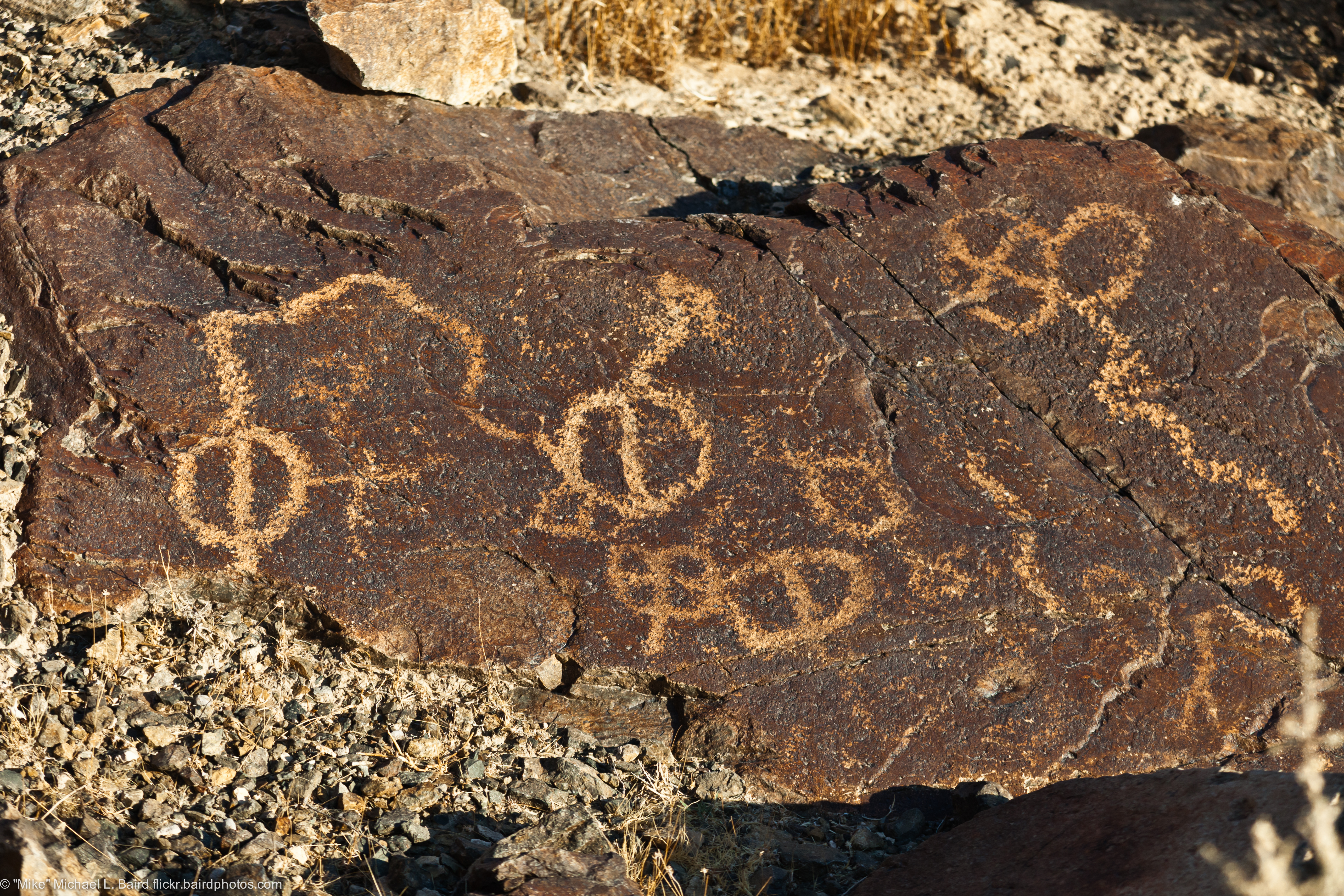 This Zzyzx Petroglyph is also called a rock engraving, and is a pictogram or logogram image created by removing part of a rock surface by incising, picking, carving, and abrading. For precise location information please contact the instructor for supervised exploration. Photo © 2011 “Mike” Michael L. Baird, mike {at] mikebaird d o t com, , Canon EOS 5D Mark II 21.1MP Full Frame CMOS Digital SLR Camera with Canon EF 100-400mm f4.5-5.6L IS USM Telephoto Zoom Lens, with no circular polarizer, handheld with IS on, RAW. Geotag location intentionally disturbed in EXIF to hide exact location. Contact Zzyzx DSC management/instructor for supervised exploration.